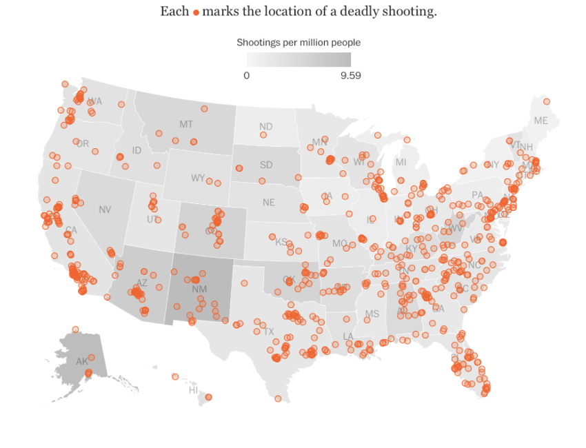 Map of where civilians have been killed by Police